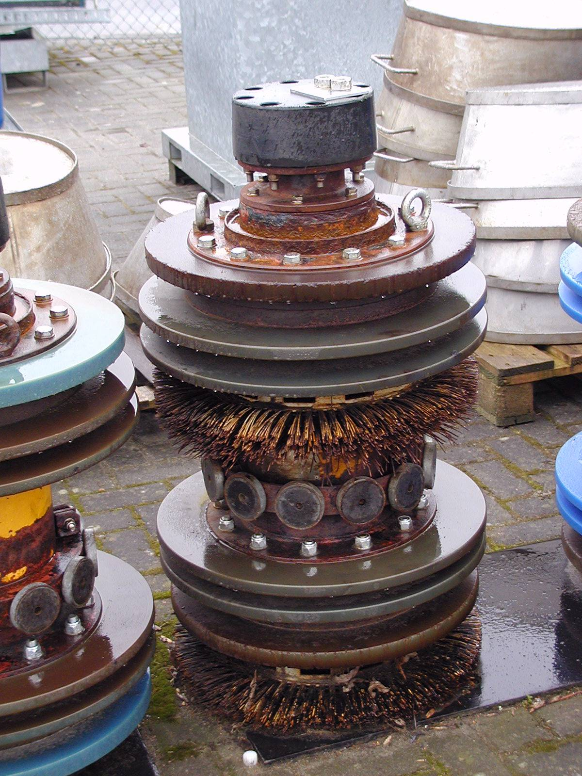 Cleaning pig for a 22" crude oil pipeline with brushes for cleaning